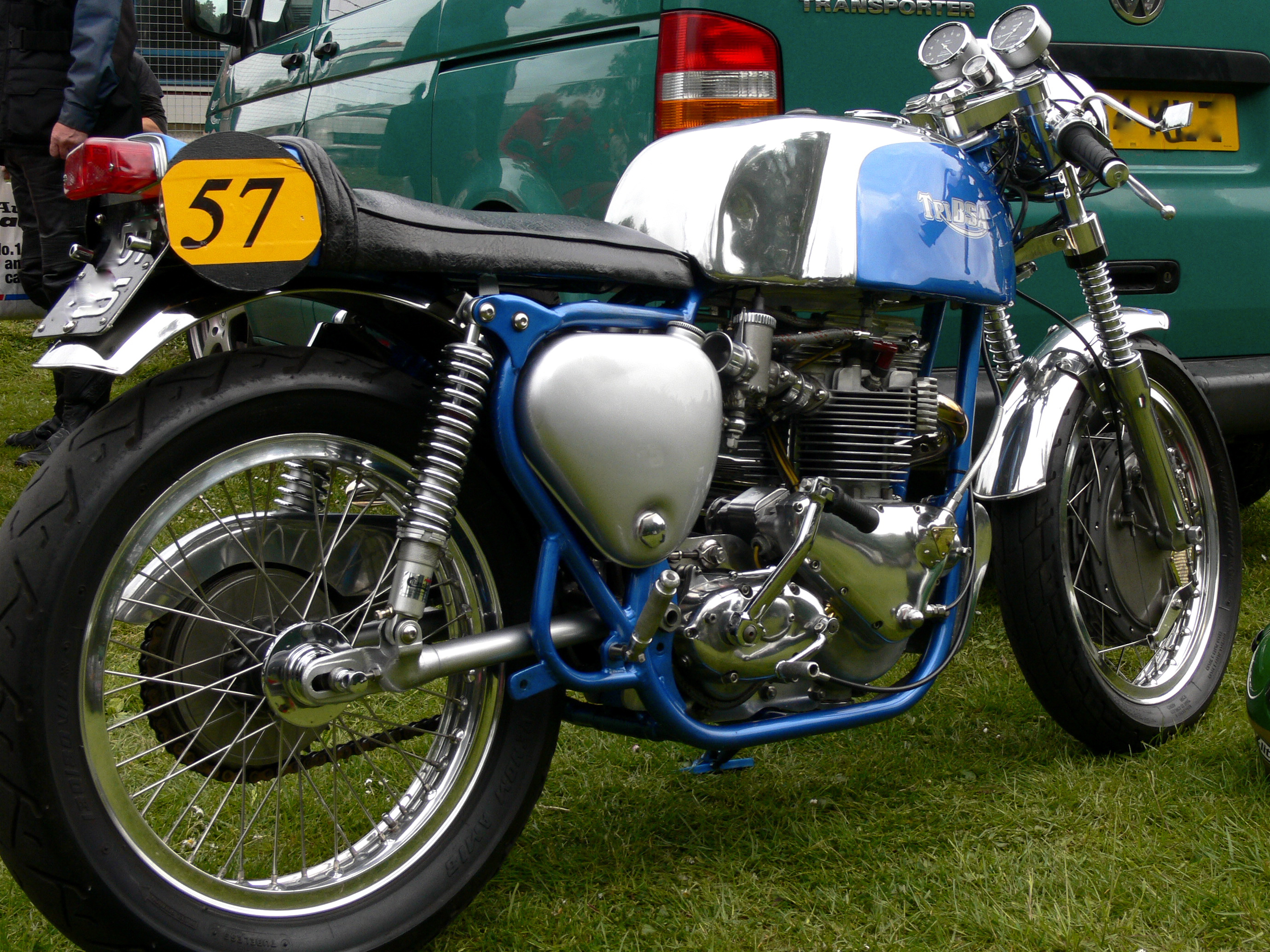 TriBSA at the Thundersprint '07